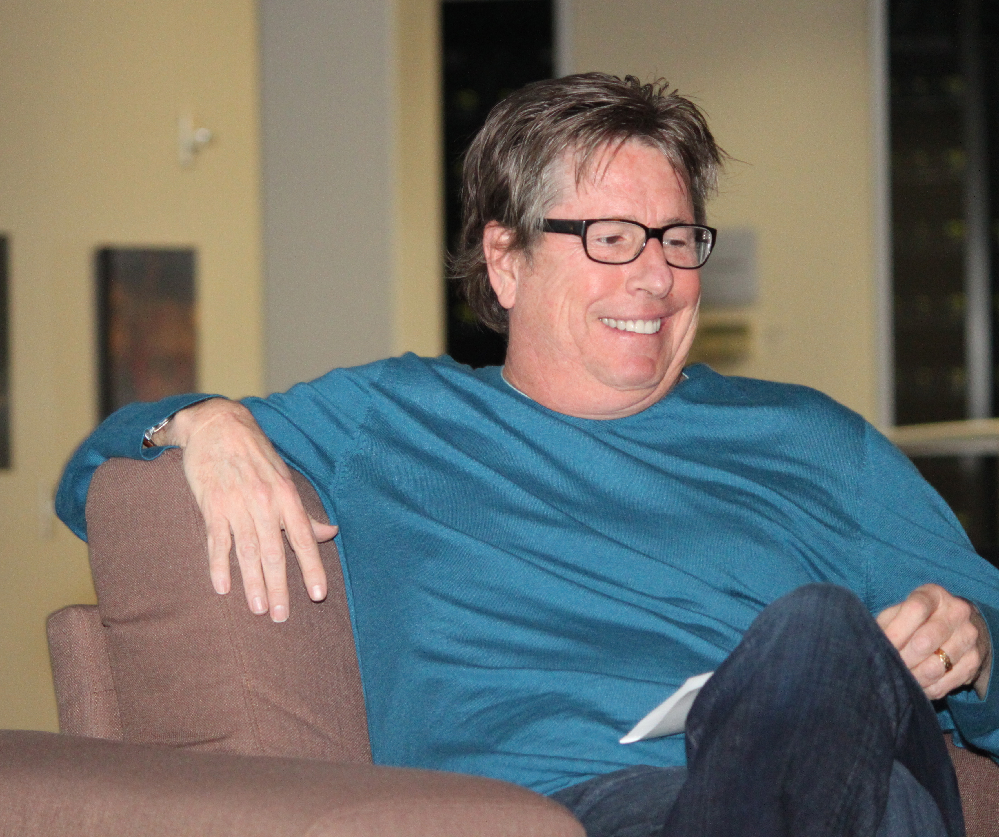 RealTVfilms Photos Young President's Organization, Dallas International Film Festival